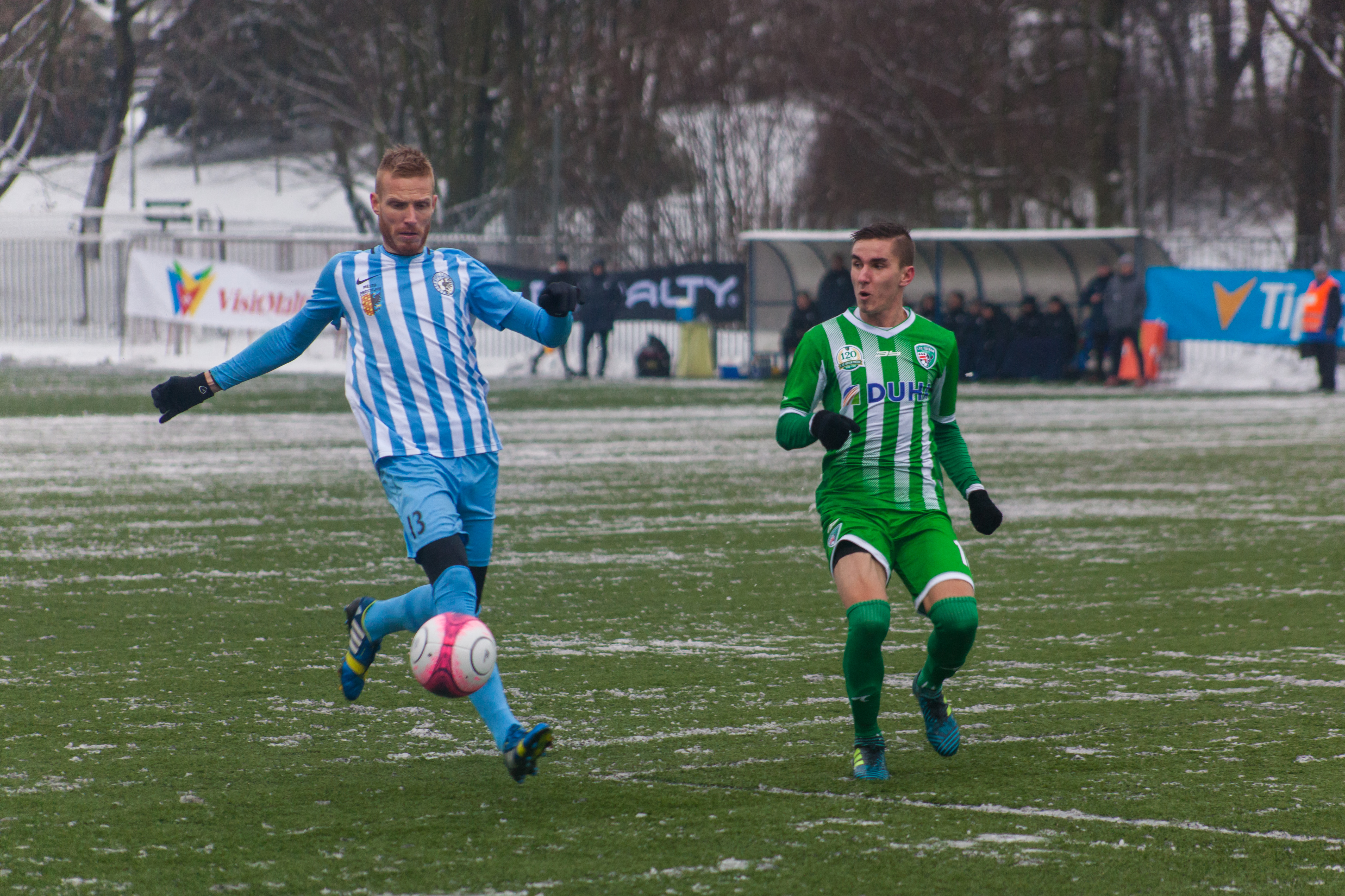 Match of winter Tipsport league between 1. SK Prostějov-1.FC Tatran Prešov (2:1), Group D played in Orlová, Karviná District, Moravian-Silesian Region, Czechia